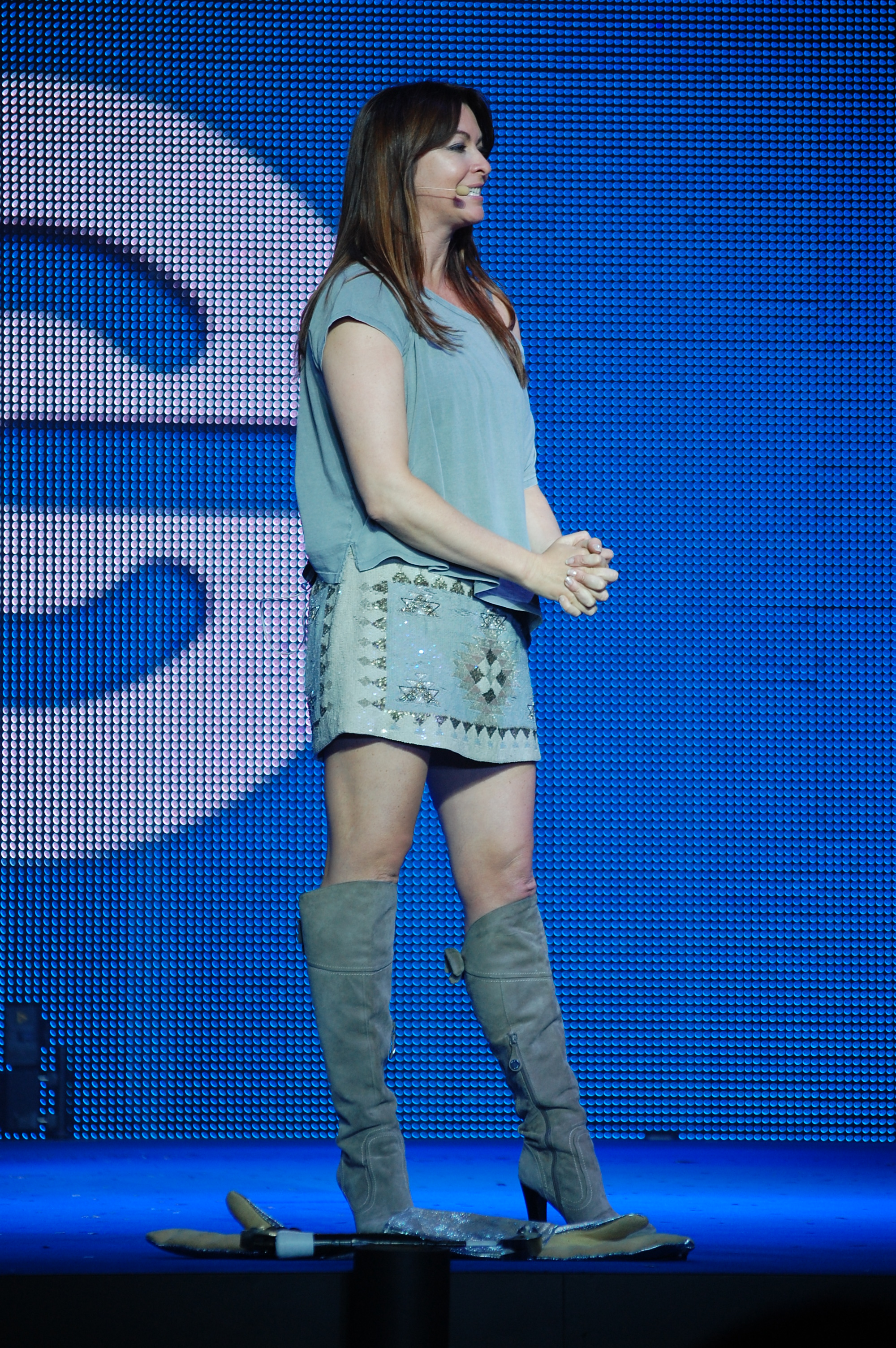 Suzi Perry, Gadget Show Live 2011